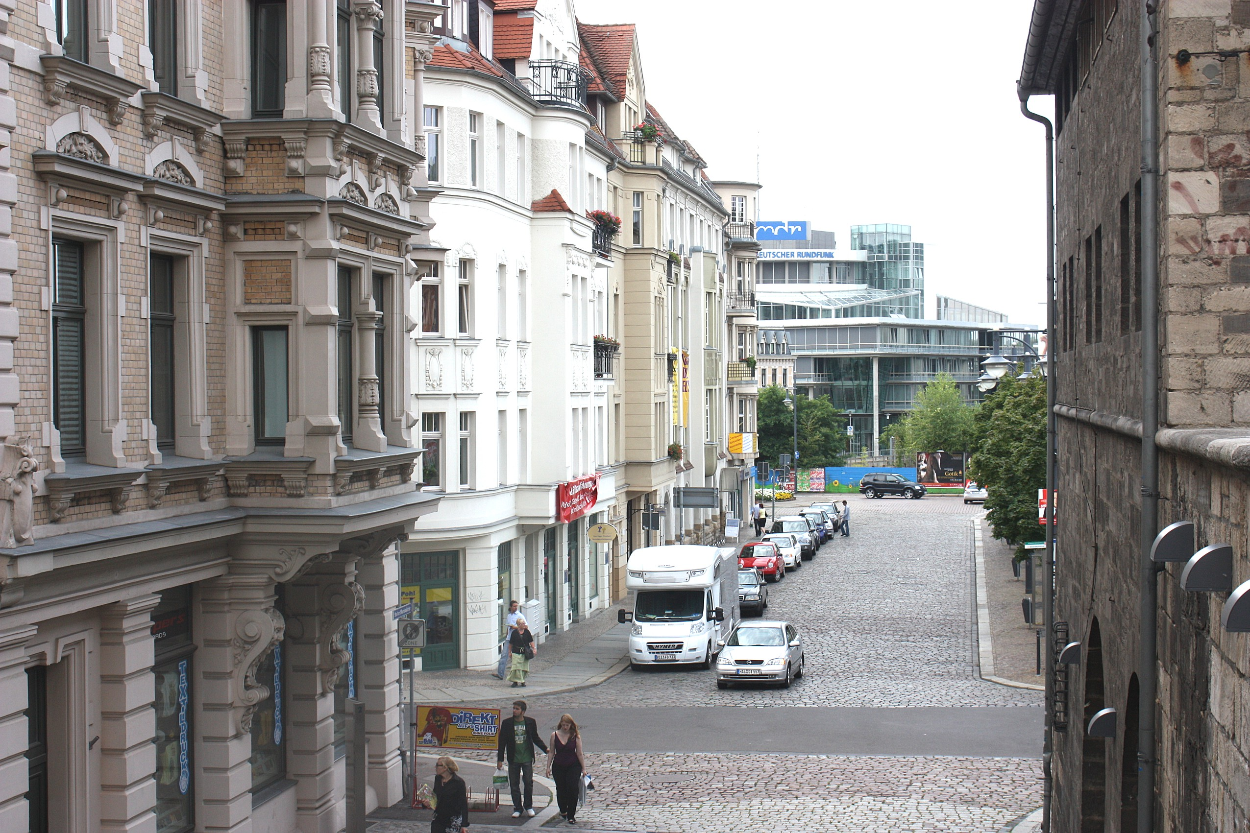 Halle (Saale), the Salzgrafenstraße